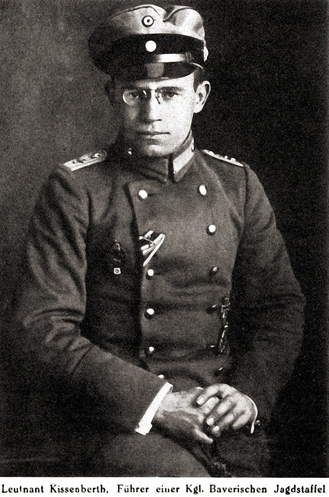 lieutenant Otto Kissenberth